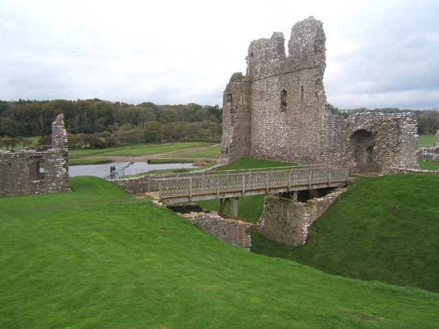 Ogmore Castle Imposing ruins overlooking the river and stepping stones.